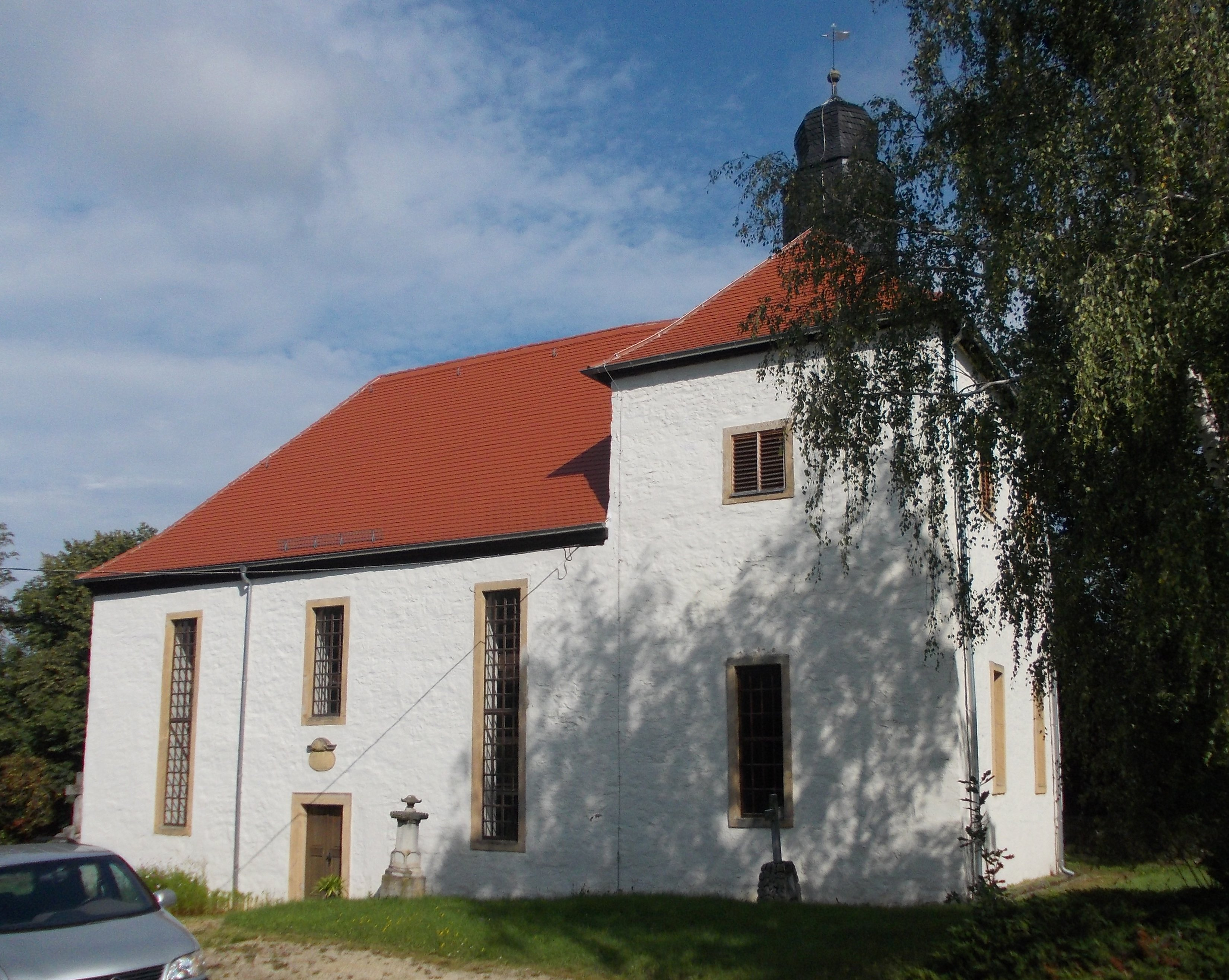 Zschorgula church (Schkölen, district: Saale-Holzland-Kreis, Thuringia)